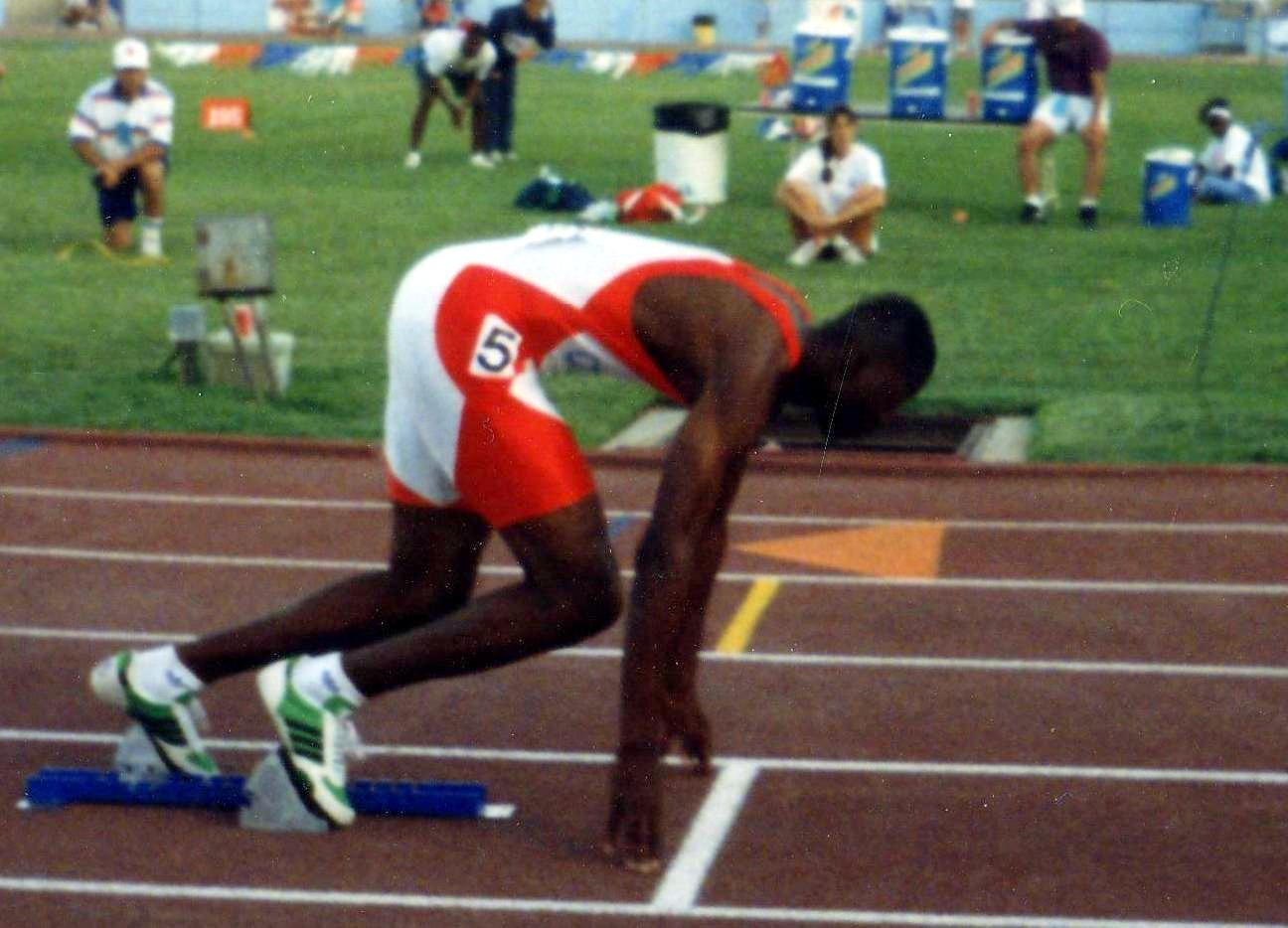 Andrew Tynes at the start of 200 metres at the 1994 UTEP Sierra Medical invitational